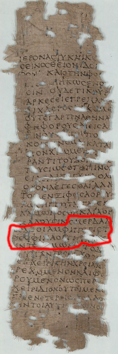 P.Oxy.XX 2260 i: Oxyrhynchus papyrus XX, 2260, column i, with quotation from Philitas of Cos highlighted. Original is a papyrus roll; this is one column of that roll, measuring approximately 5×20 cm. For a transcription, please see: De Luca CD (1999). "Per l'interpretazione del POxy XX 2260 (Apollodorus Atheniensis, Περὶ θεῶν)" (PDF). Papyrologica Lupiensia (8): 151–64. Retrieved on 2008-09-10.